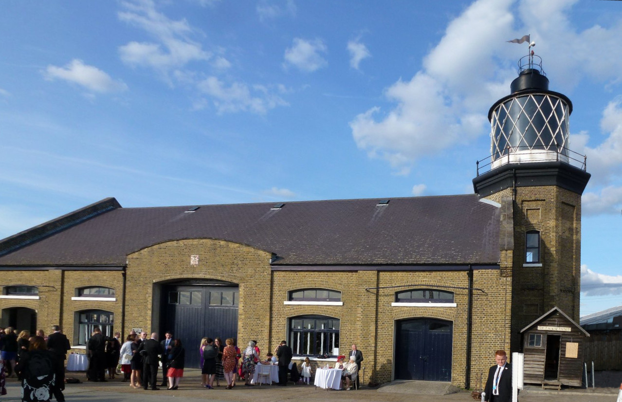 Bow Creek Lighthouse, a warehouse and a shed exhibiting Michael Faraday's work at Trinity Buoy Wharf, London in September 2012.